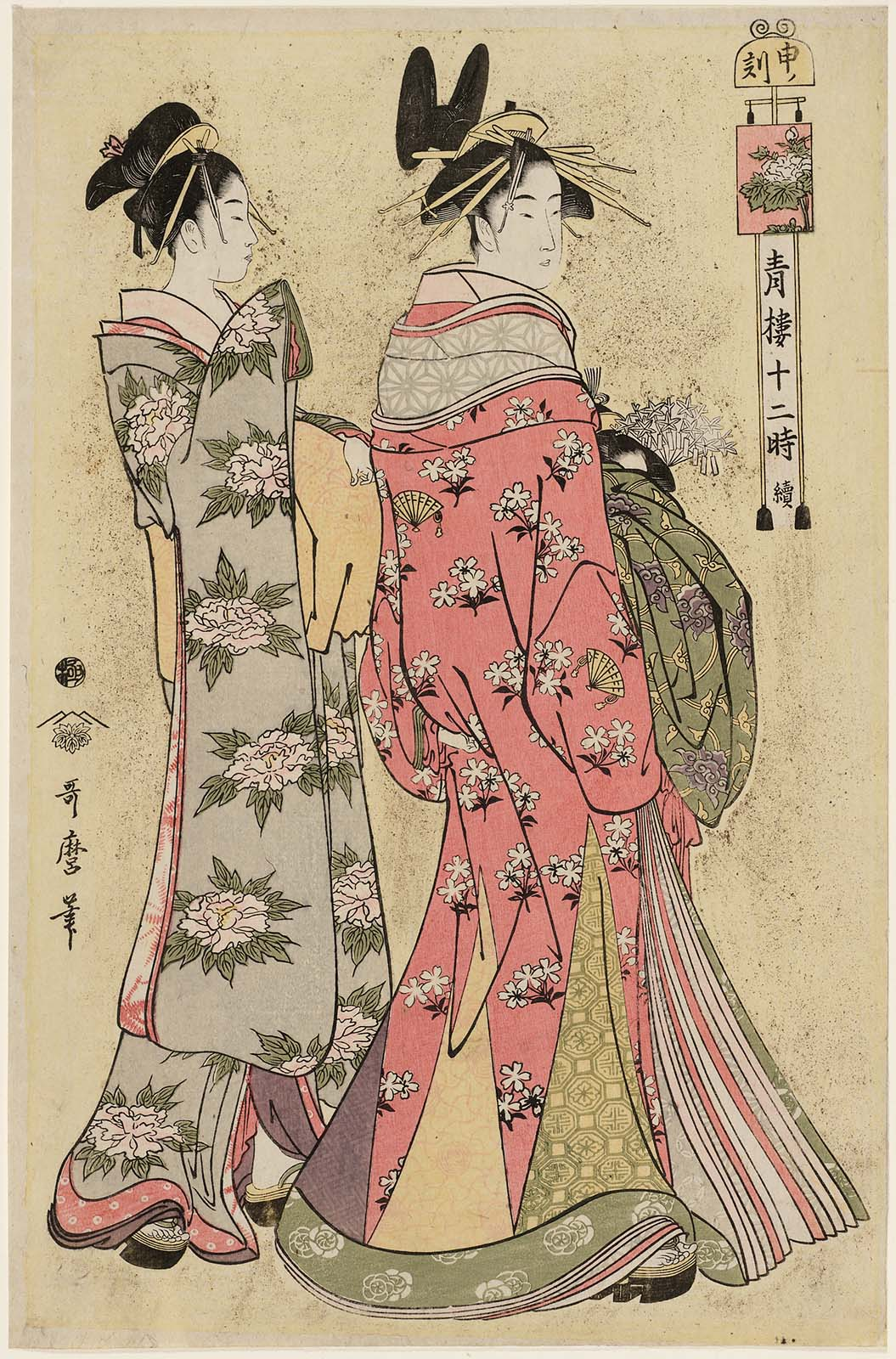 Multicolour ukiyo-e print from the series Seirō jūni toki tsuzuki